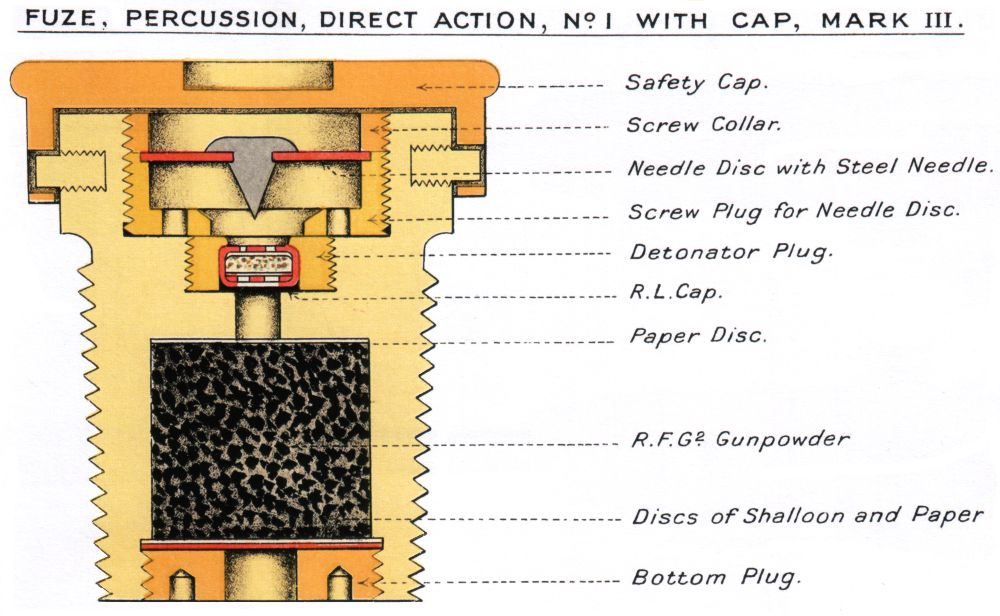 Diagram of British No. 1 Direct Action percussion fuze, with cap, Mk III. Armstrong fuze in service 1900 - 1918. Requires a heavy impact to activate. Has no loose or movable parts to move forward on impact. Head of fuze has a copper disc supporting a steel needle over a detonator. The needle must be crushed in to explode the fuze. A cap or screw plug covers the top of the fuze to provide safety during transport, and is removed just before loading. For use with Common lyddite shell for the following guns : BL 60 pounder Gun BL 60 inch 30 cwt Howitzer BL 5.4 inch Howitzer BL 5 inch Howitzer BLC 6 inch siege gun QF 4.7 inch Gun QF 4.5 inch Howitzer